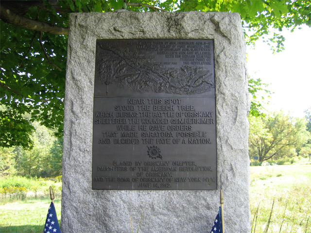 An image I snapped of Herkimer monument at the Oriskany battlefield.